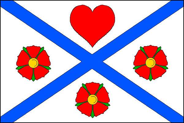 Municipal flag of Šonov village, Náchod District, Czech Republic.